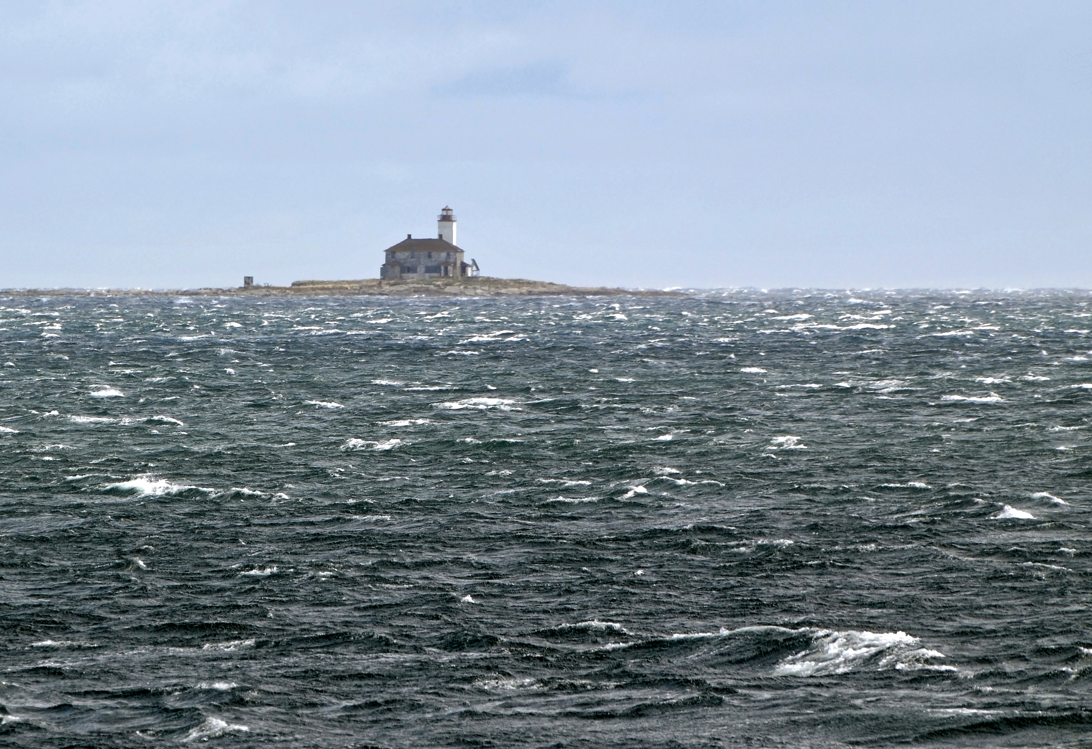 Cranberry Island Lighthouse is located 2.7 km (1.7 miles) offshore. In 1815, a 18.3 meter (60ft) octagonal wooden tower with red and white bands was built on the island. In 1883 it was replace with a white, square wooden tower attached to a dwelling. A steel skeleton tower (moved to Jeddore Rock) replaced the lighthouse in 1971 until the present tower was built in 1978. Location: Southern end of Cranberry Island, Canso Harbour, Cape Breton. Tower Height: 14.6 meters (48ft) Light Height: 16.76 meters (55ft) above water level